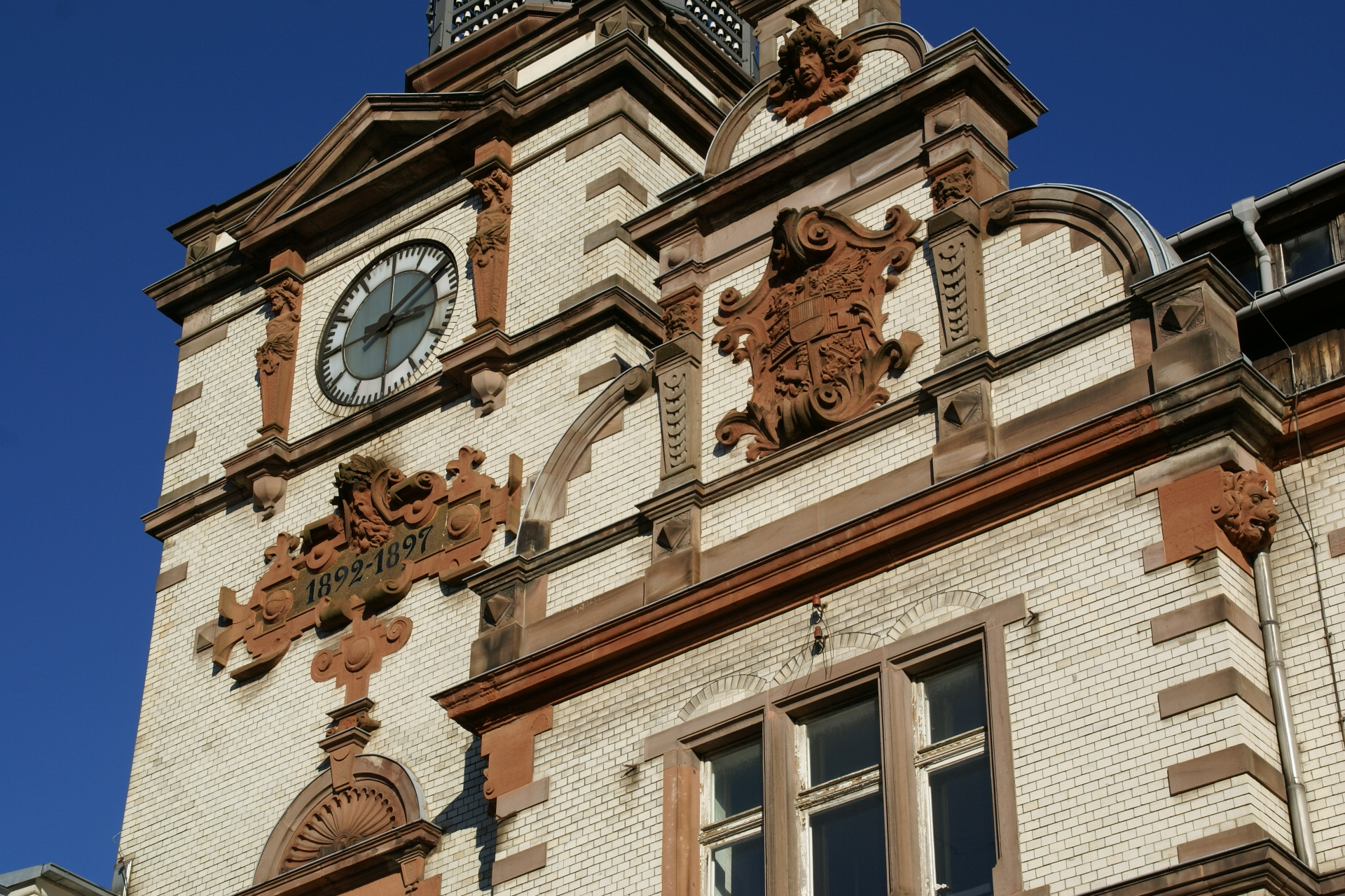 Post office building at Mecklenburg Street (the pedestrian zone) in Schwerin, Germany